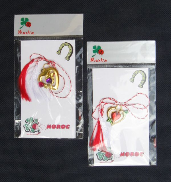 "Mărţişor", common use.